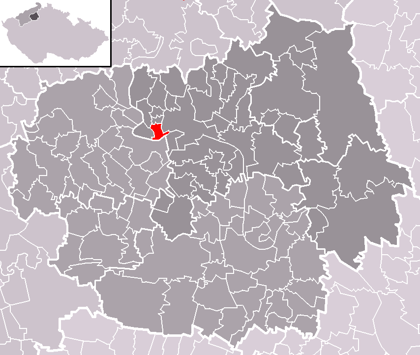 Location of Žalhostice municipality within Litoměřice District and administrative area of Litoměřice as a Municipality with Extended Competence.